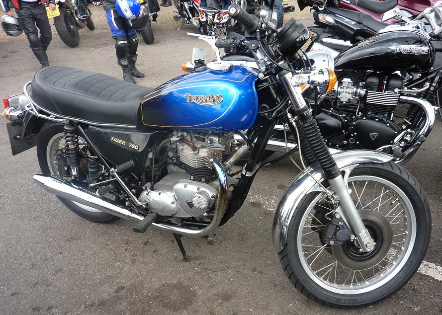 750cc TR7V Tiger built in Newton Abbott (UK) by LF Harris under licence in the mid-late 1980s and same model also used by Royal Signals Motorcycle Display Team. Aftermarket rear suspension units and exhaust silencers replace the original items from Italian manufacturers Paioli and Lafranconi respectively. The direction indicaors were originally black plastic German ULO items as fitted to contemporary BMW motorcycles. Here, pattern Lucas chromed items replace them.